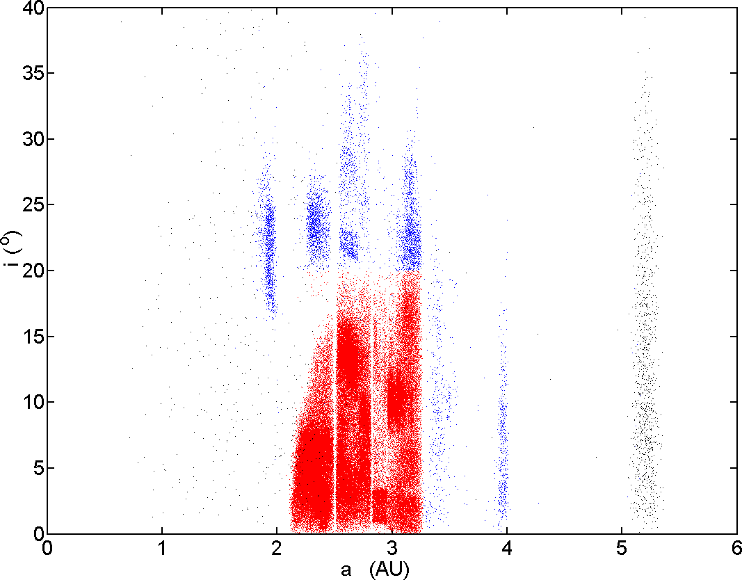 Plot of inclination i vs semi-major axis a for numbered asteroids inward of about 6 AU. The main belt region is shown in red, and contains 93.4% of all the objects. For reference, Mars orbits out to 1.666 AU, and Jupiter between 4.95 and 5.46 AU. The diagram was created by Piotr Deuar [1] using orbit data for 120437 numbered minor planets from the Minor Planet Center orbit databse, dated 8 Feb 2006.